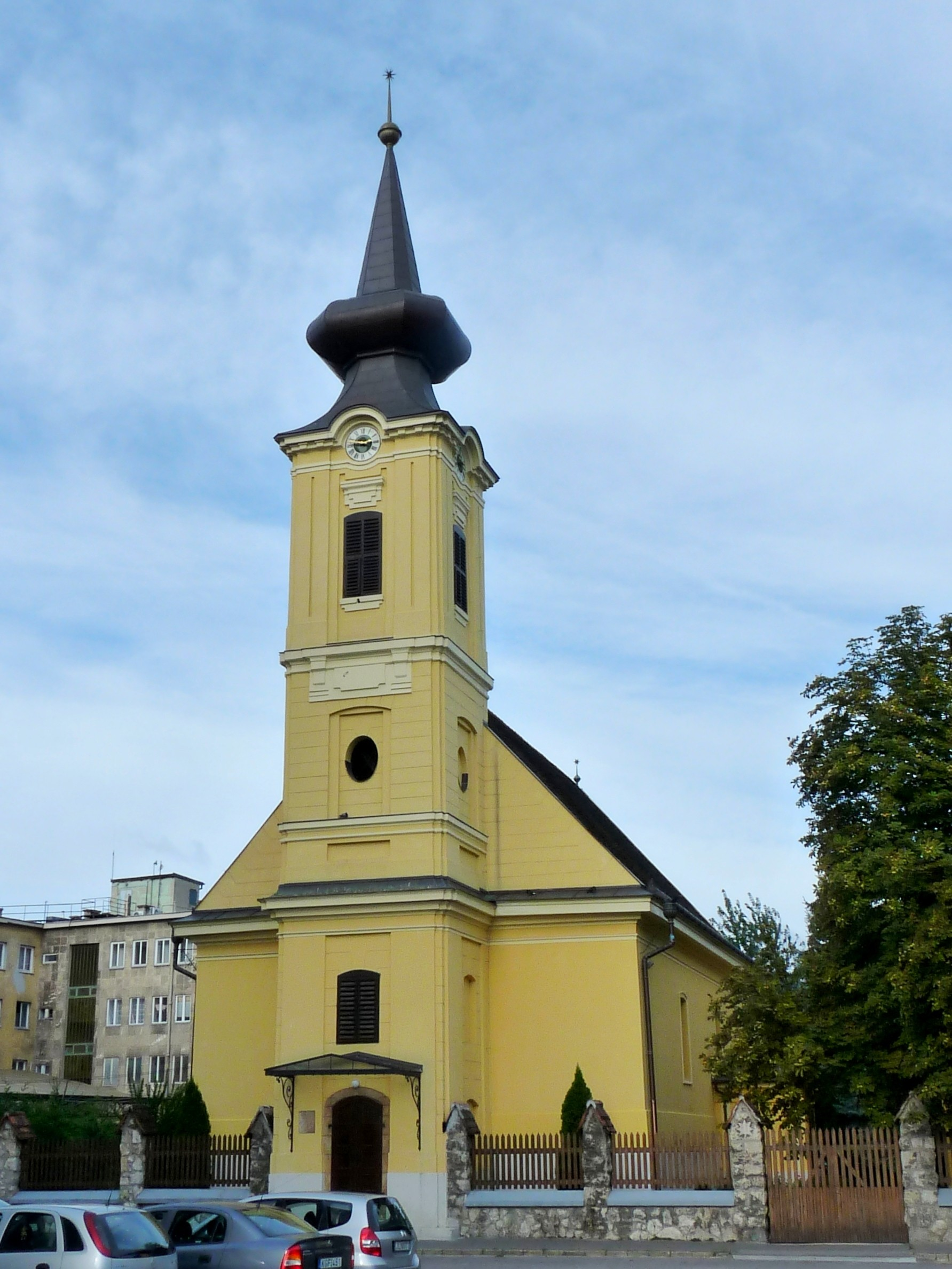 Reformed Church in Óbuda.